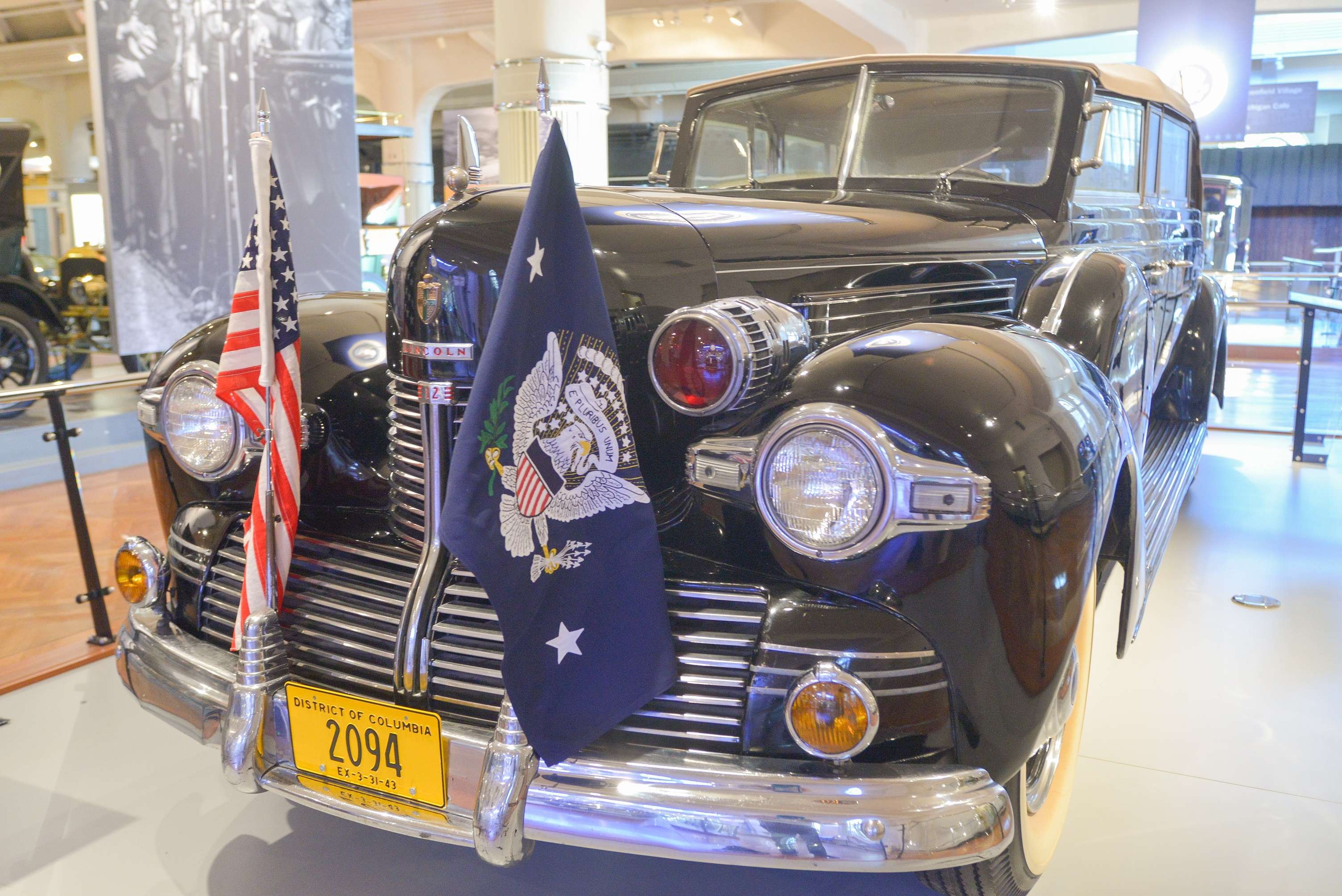 FDR's 1939 Lincoln K Series Presidential Limousine photographed as it appears on display at The Henry Ford, Dearborn, Michigan.